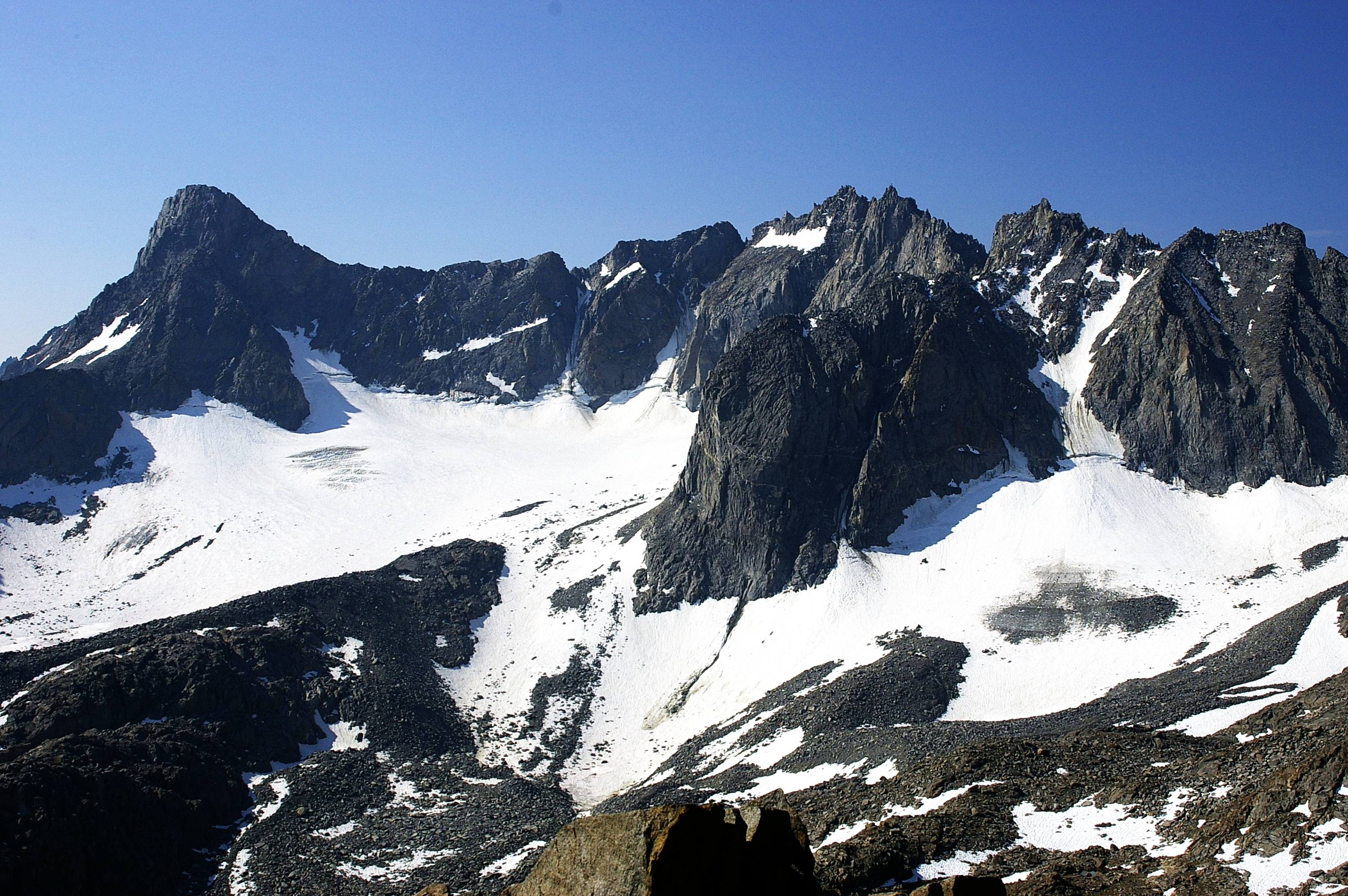 The Palisade Glaciers in the Sierra Nevada of California. The Palisade Glacier is on the left and the Middle Palisade Glacier is on the right. The three main peaks from left to right are Mount Sill, North Palisade and Thunderbolt Peak.